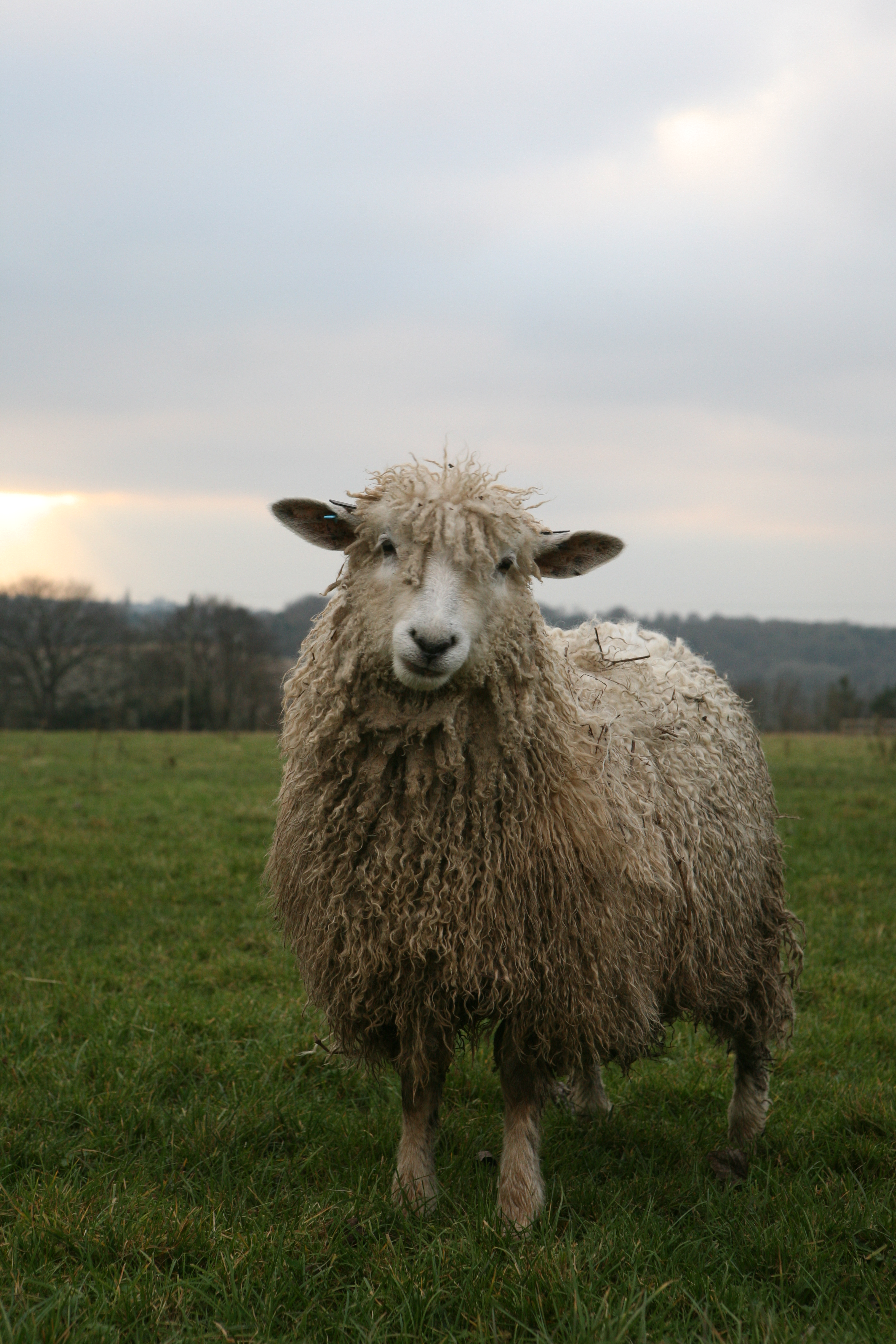 Cotswold Sheep. Ewe (female), approximately 8 months old. Photographed in Combe, Witney, Oxfordshire, UK.